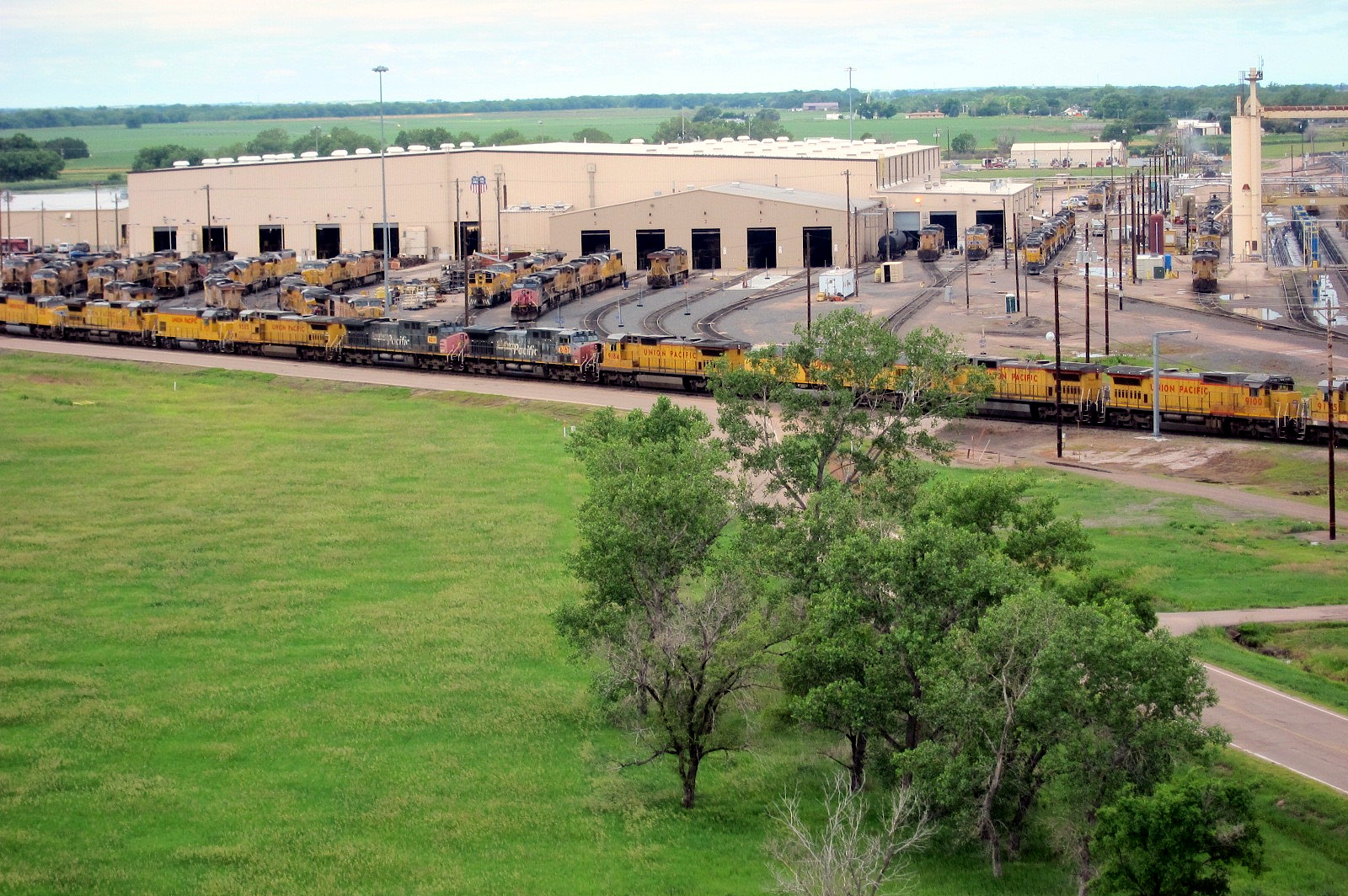 World's largest rail yard